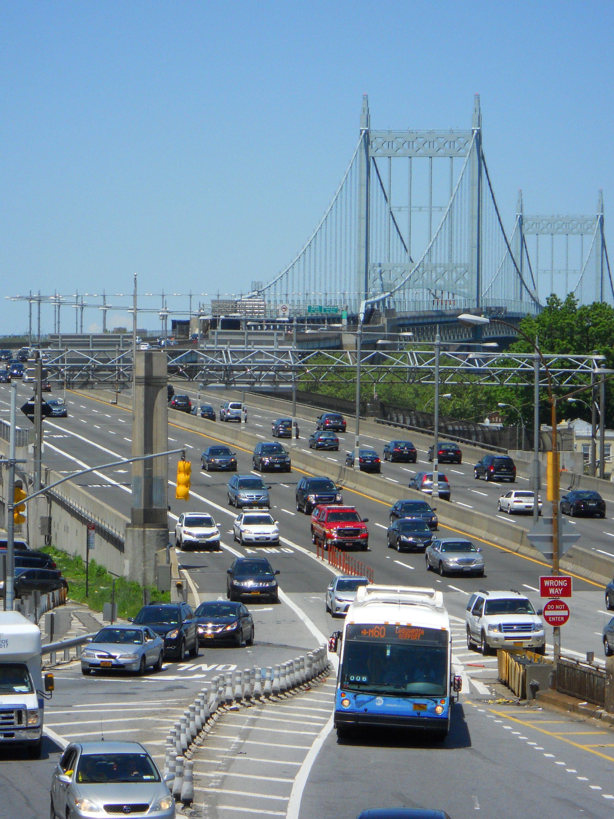 Start of new M60 Select Bus service to LaGuardia Airport 5/25/14